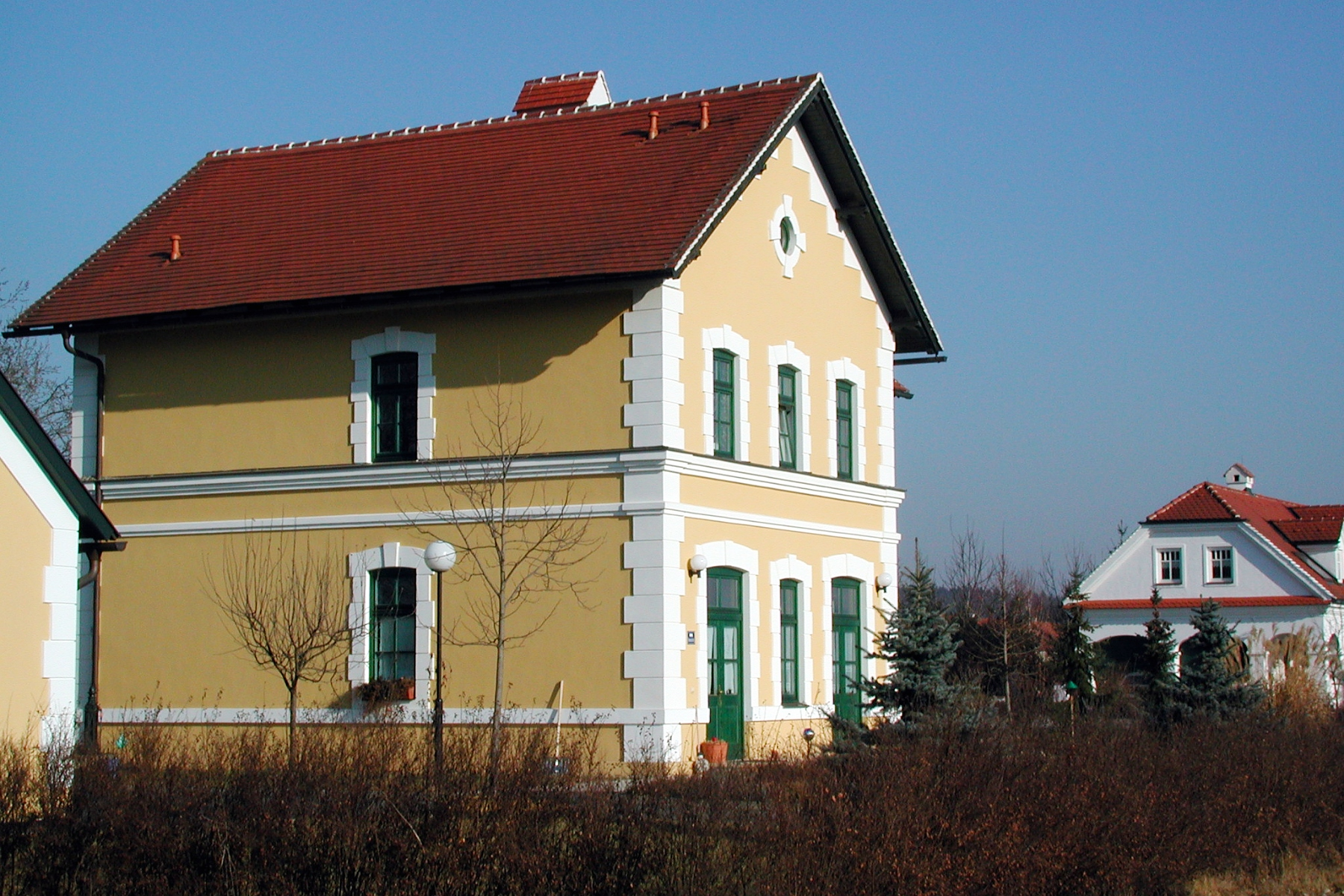 Old railway station in Güssing, today a private home.